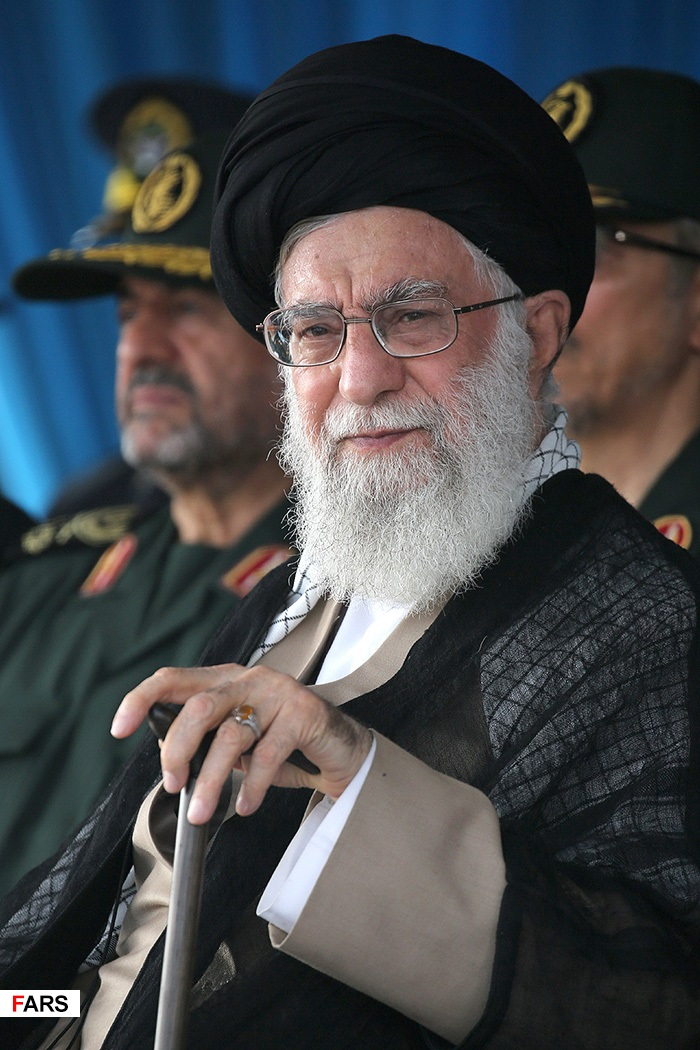 Ali Khamenei, Supreme Leader of Iran